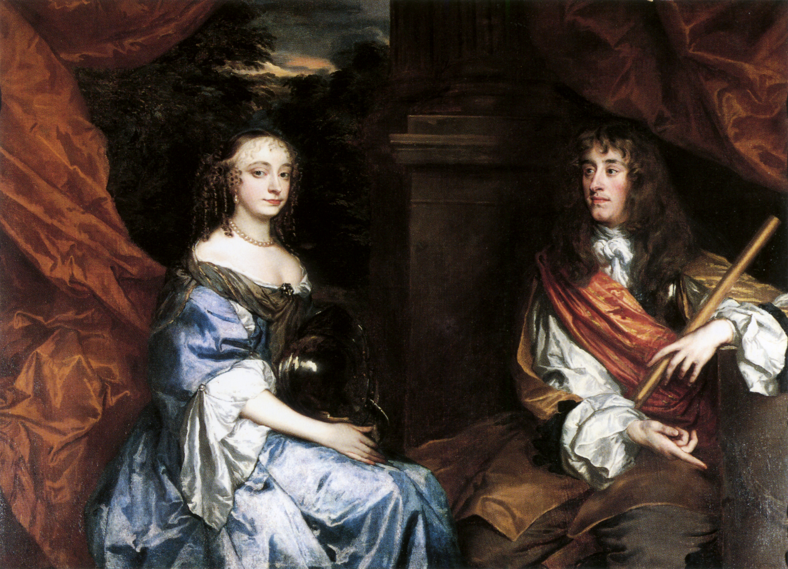 This PNG image has a thumbnail version at File: James II and Anne Hyde by Sir Peter Lely.jpg. Generally, the thumbnail version should be used when displaying the file from Commons, in order to reduce the file size of thumbnail images. Any edits to the image should be based on this PNG version in order to prevent generational loss, and both versions should be updated. See here for more information. Anne Hyde, Duchess of York; King James II, by Sir Peter Lely, 1660s. National Portrait Gallery: NPG 5077 While Commons policy accepts the use of this media, one or more third parties have made copyright claims against Wikimedia Commons in relation to the work from which this is sourced or a purely mechanical reproduction thereof. This may be due to recognition of the "sweat of the brow" doctrine, allowing works to be eligible for protection through skill and labour, and not purely by originality as is the case in the United States (where this website is hosted). These claims may or may not be valid in all jurisdictions. As such, use of this image in the jurisdiction of the claimant or other countries may be regarded as copyright infringement. Please see Commons:When to use the PD-Art tag for more information.See User:Dcoetzee/NPG legal threat for original threat and National Portrait Gallery and Wikimedia Foundation copyright dispute for more information. This tag does not indicate the copyright status of the attached work. A normal copyright tag is still required. See Commons:Licensing.